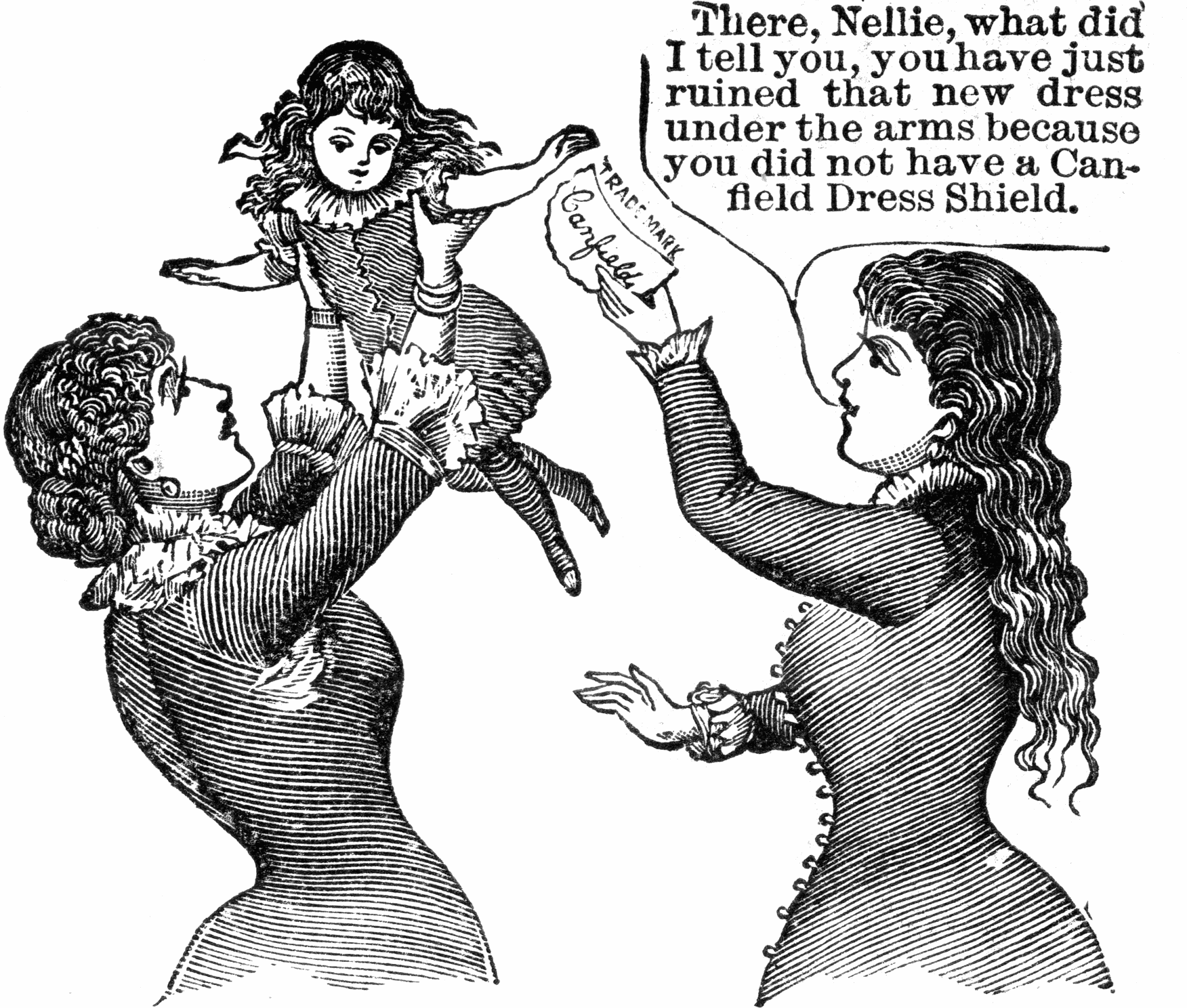 Comic drawing cropped from page